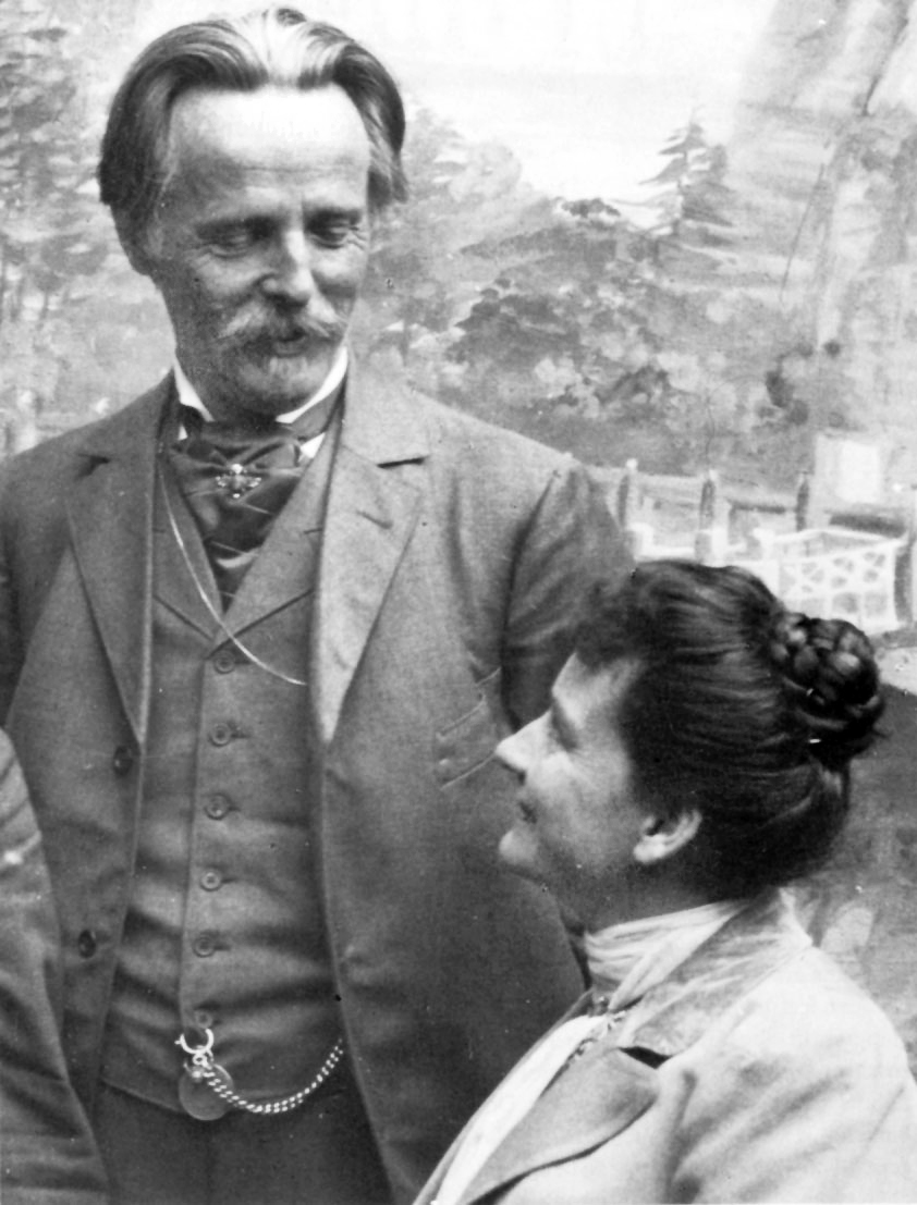 Karl May and Klara May